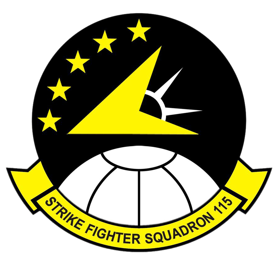 Official insignia of Strike Fighter Squadron 115.